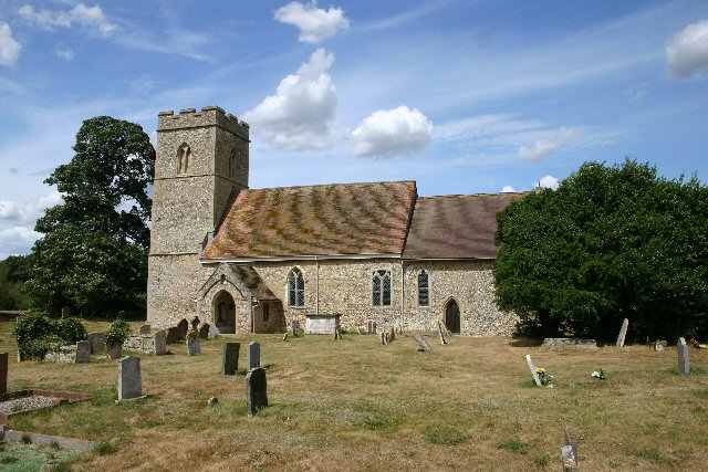 Sapiston Church. St Andrew's church has been redundant since 1980 and is in the care of the Churches Conservation Trust. Access to the church is across private land along a public footpath.